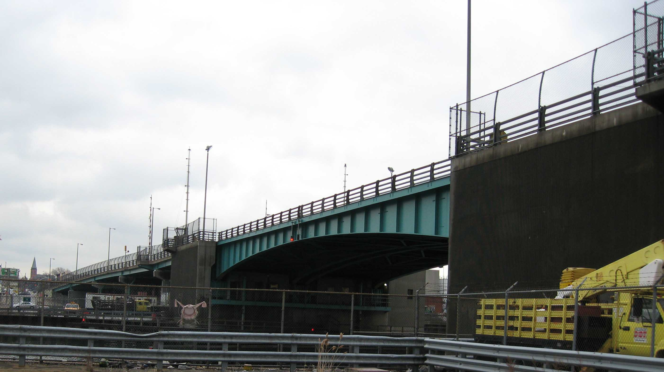 Greenpoint Avenue crosses Newtown Creek on J. J. Byrne Memorial Bridge as seen from the Brooklyn downsteam footing of the former low fixed bridge